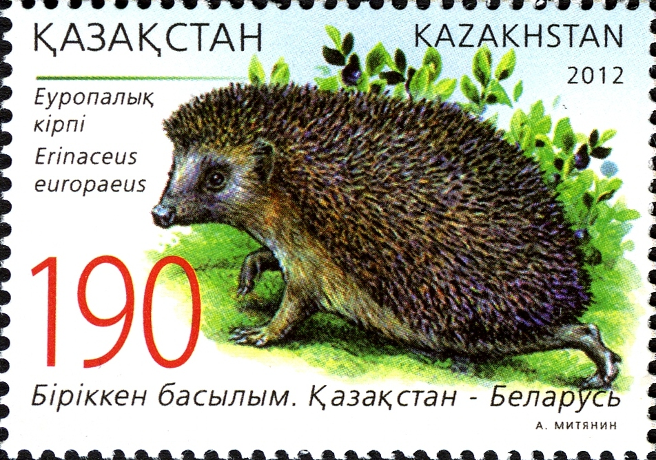 Stamps of Kazakhstan, 2012